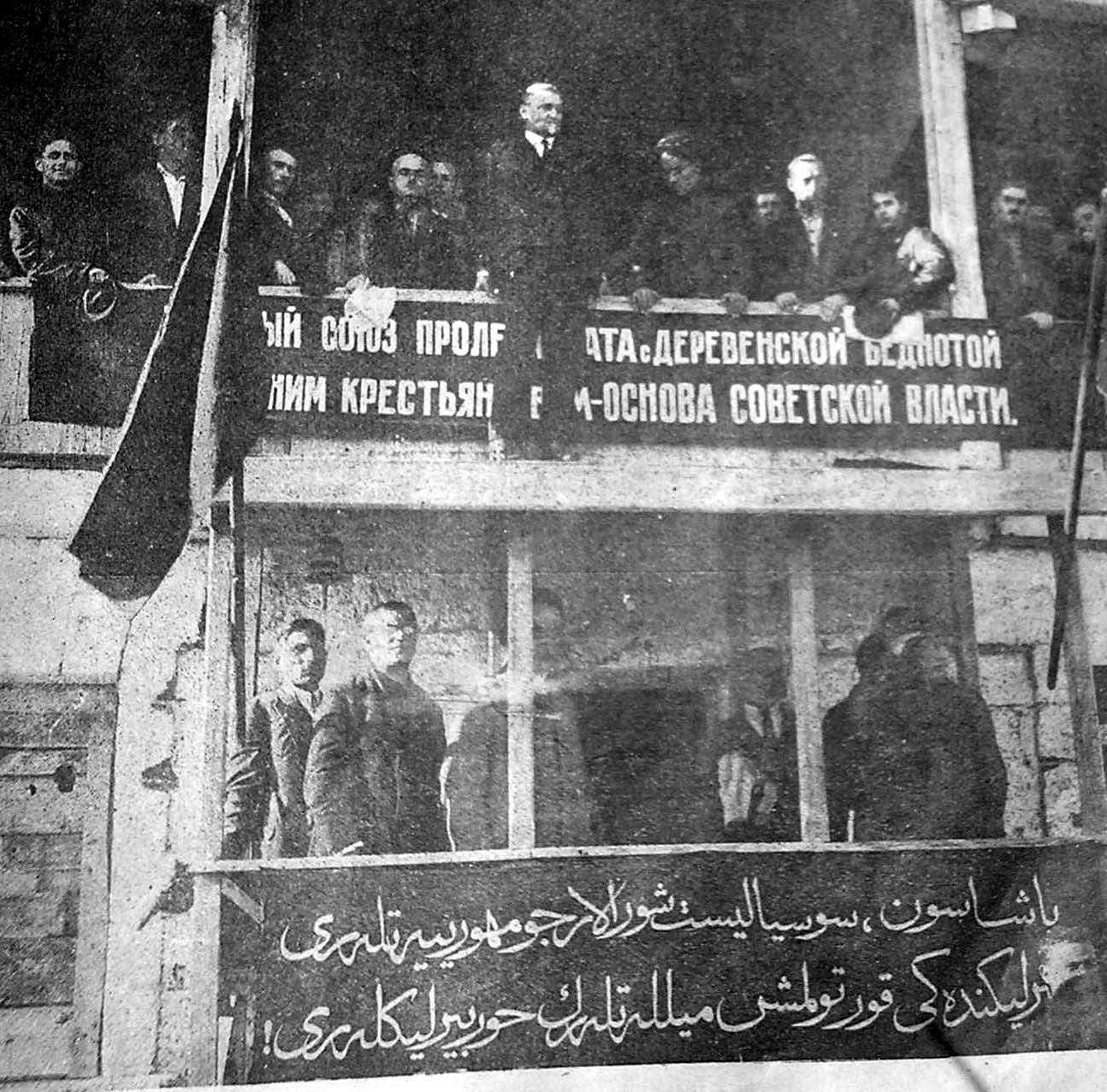 Comrade [Shlikhter]'s speech during the celebration of " the five-year period of the release Of [kryma]"